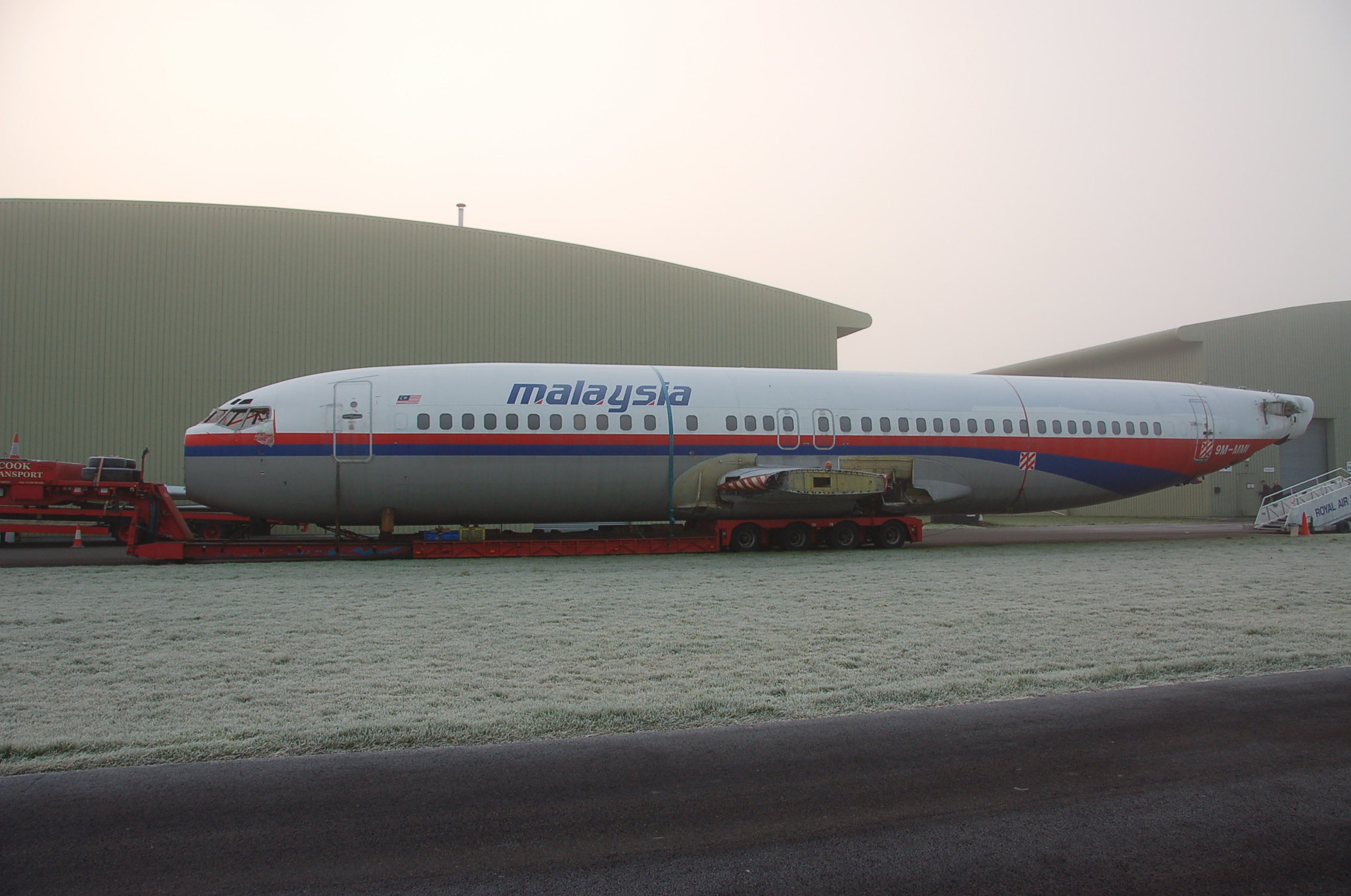 Fuselage remains of Malaysian Airlines Boeing 737/4 at Kemble, Gloucestershire